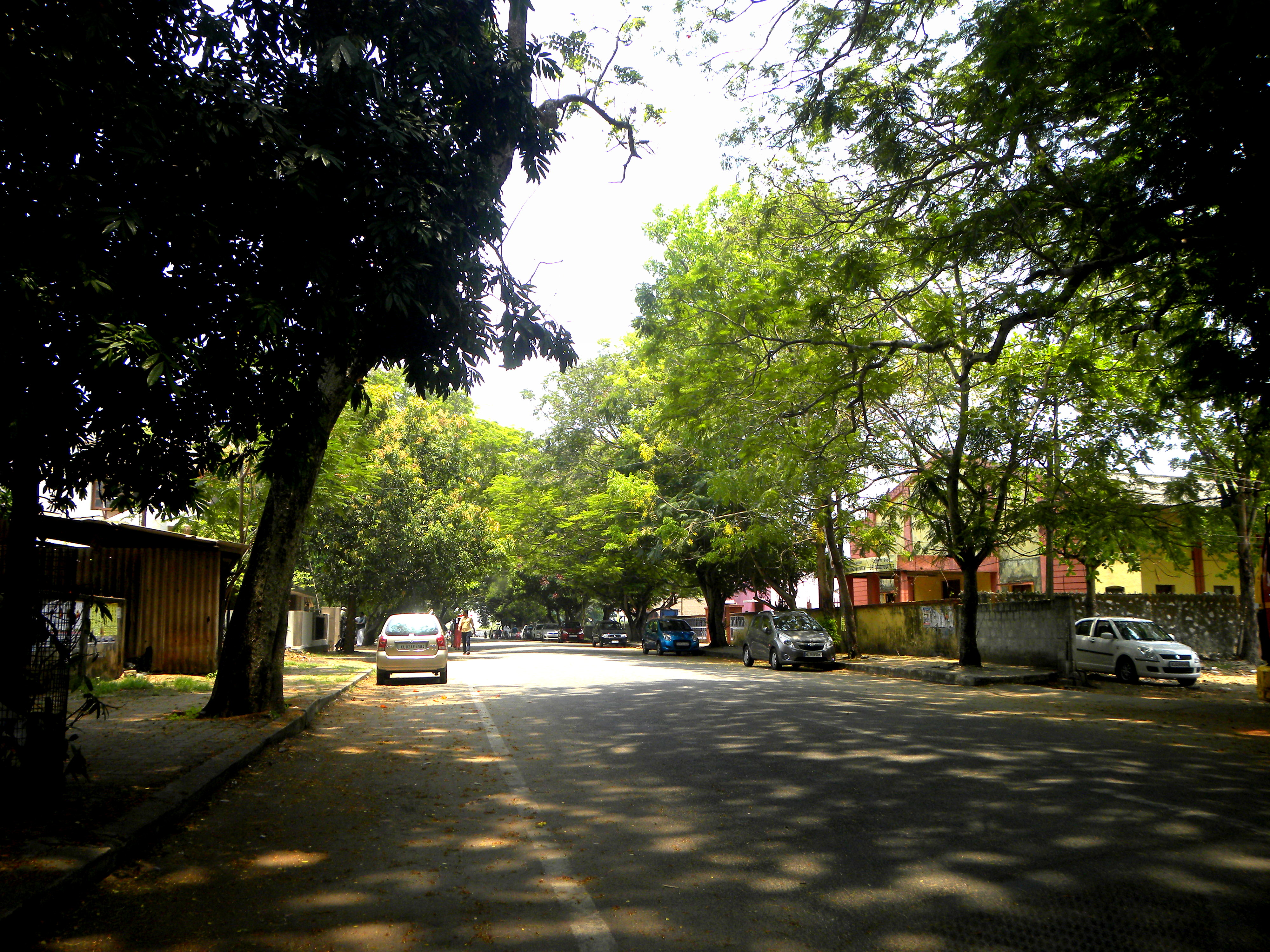 The Quilon Athletic Club Road(QAC Road) is the most scenic road in Kollam city.